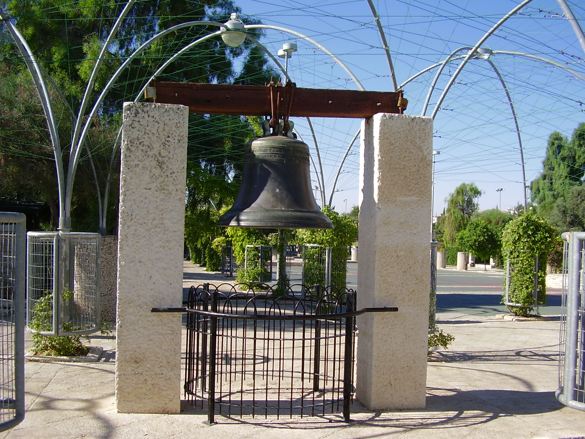 liberty bell in jerusalem פעמון החרות בגן פעמון הדרור בירושלים